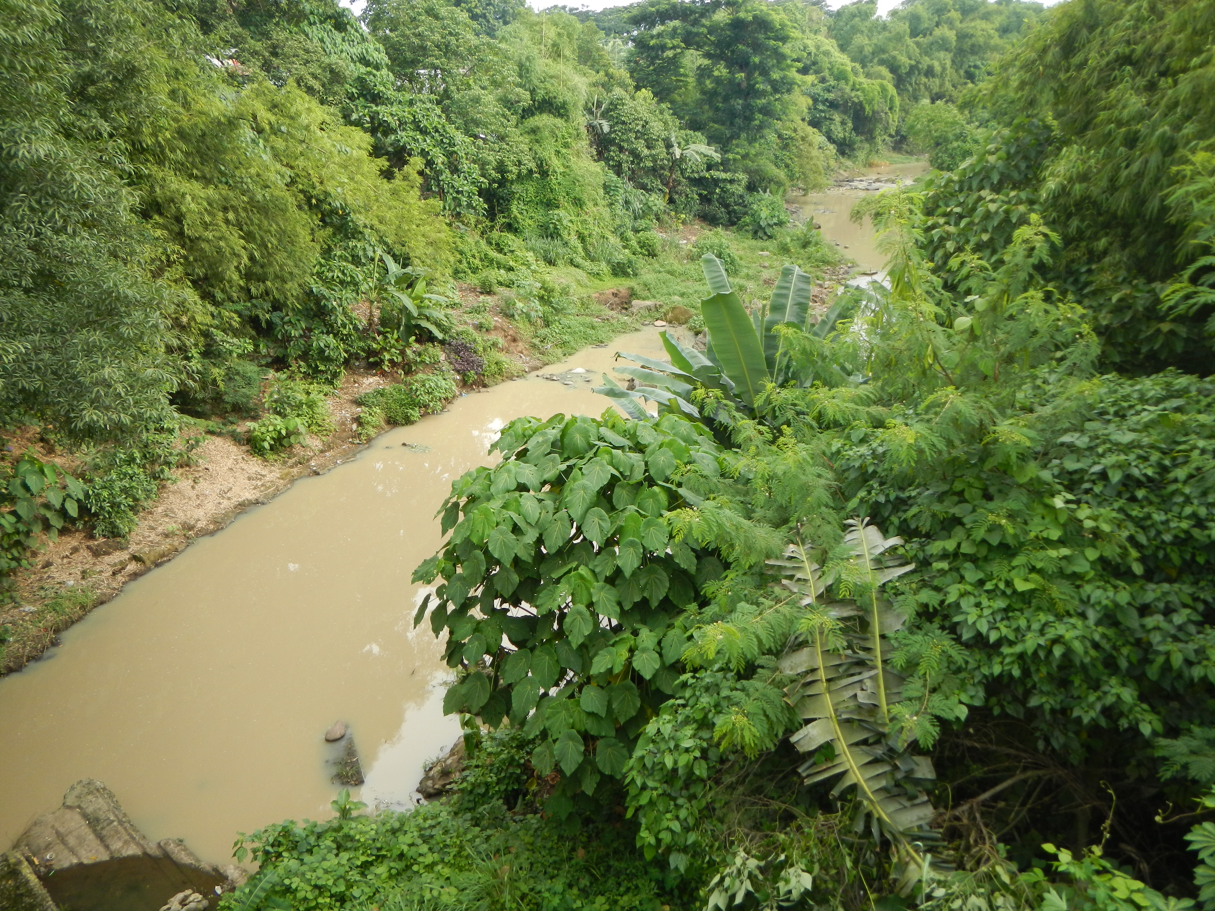 HIghway Boundary MSR Candelaria Section Km 102 + 462 - Km 111 + 048 & Taguan Bridge, Km 102 + 450[1] Coordinates: 13°55'54"N 121°23'40"E & River Pan-Philippine Highway Barangay Bukal Sur, Bridge and River --- Candelaria, Quezon [2] The Municipality of Candelaria (Filipino: Bayan ng Candelaria) is a first class municipality in the province of Quezon[3], Philippines - 2010 census, it has a population of 110,570 traversed by the Maharlika Highway with a total area of 175 km².Website [4] Geographical location: Quezon, Region 4, Philippines, Asia Geographical coordinates: 13° 55' 52" North, 121° 25' 24" East This place is situated in Quezon, Region 4, Philippines, its geographical coordinates are 13° 55' 52" North, 121° 25' 24" East and its original name (with diacritics) is Candelaria.